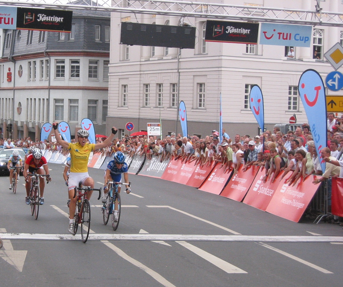 Nicole Cooke wins 19th International Women's Bicycle Race of Thuringia in Zeulenroda-Triebes.